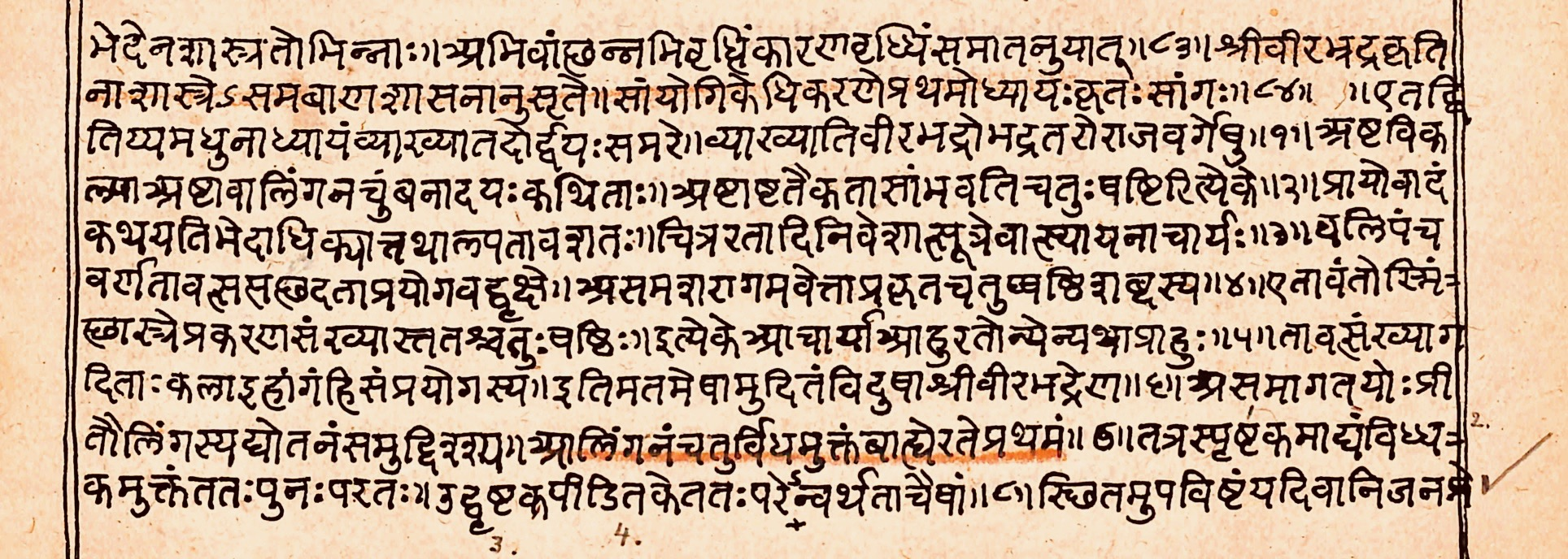 The Kama Sutra is a Hindu text, whose title literally means "a treatise on desire / emotional pleasure / love / sex". It is likely a 3rd- or 4th-century CE text according to scholars, but some estimates place it centuries before or after that range. It is a Sanskrit text by Vatsyayana Mallanaga. Vatsyayana mentions in the Kama Sutra that his work relies on earlier Kama sastra texts. He cites them, but these older texts have not survived into the modern era. The Kamasutra exists in many Indic scripts. Being a sutra, it is terse and distilled. The text has attracted scholarly studies since the ancient times, and these are called bhasya (commentaries that include interpretation, citations and views of the scholar). It is one of many popular Hindu text that has attracted translations in and outside India over the centuries. One of the most important and well-known commentaries on the Kama Sutra is by Yashodhara, named Jayamangala (c. 13th-century). The manuscript above is a commentary copied and preserved by the Raghunath Hindu temple in old Jammu city in the 19th-century. This manuscript was acquired by the temple in the 19th-century, and was produced in or before. The photo above is of a 2D artwork from the text that was itself authored more than 500 years ago. Therefore Wikimedia Commons PD-Art licensing guidelines apply. Any rights I have as a photographer is herewith donated to wikimedia commons under CC 4.0 license.